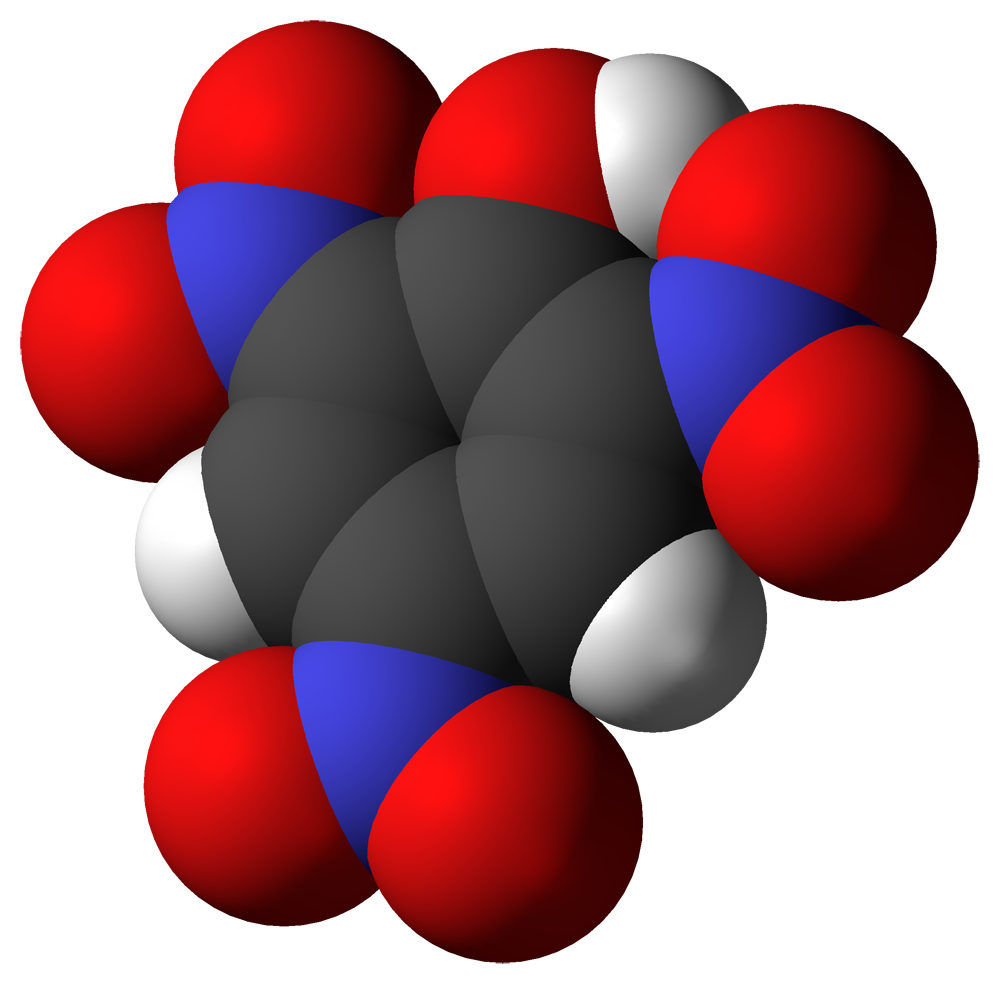 Chemical structure of 246trinitrophenol